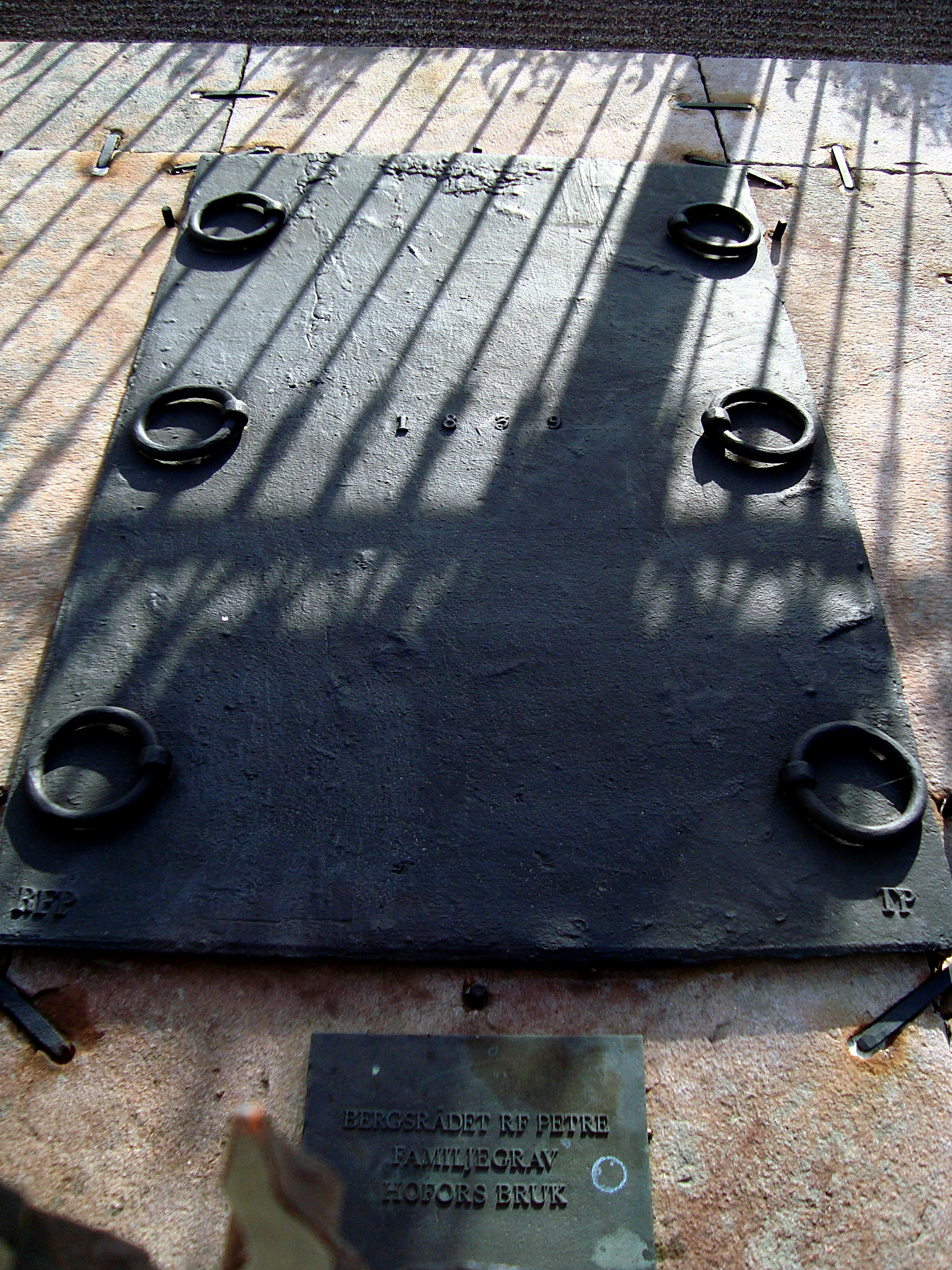 Torsåker's church, Hofors Municipality, Sweden